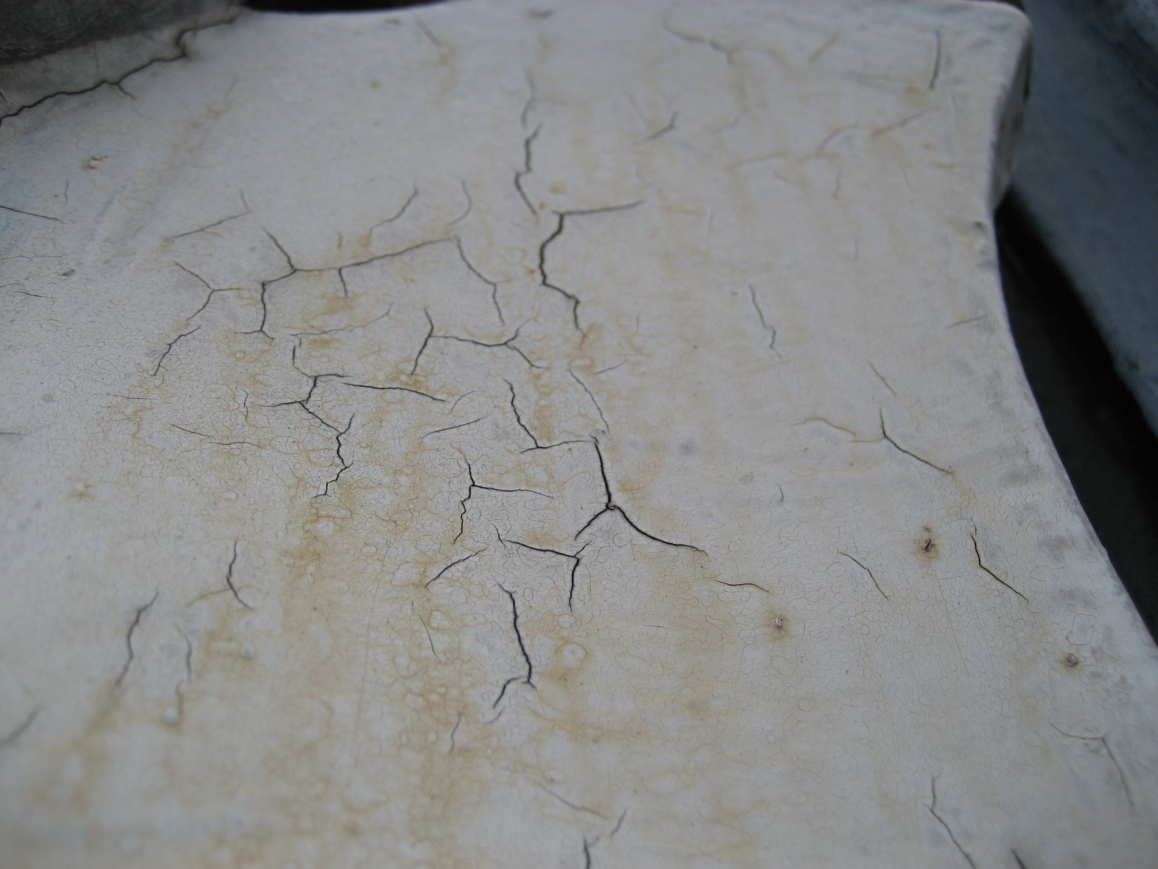 Cracked paint.